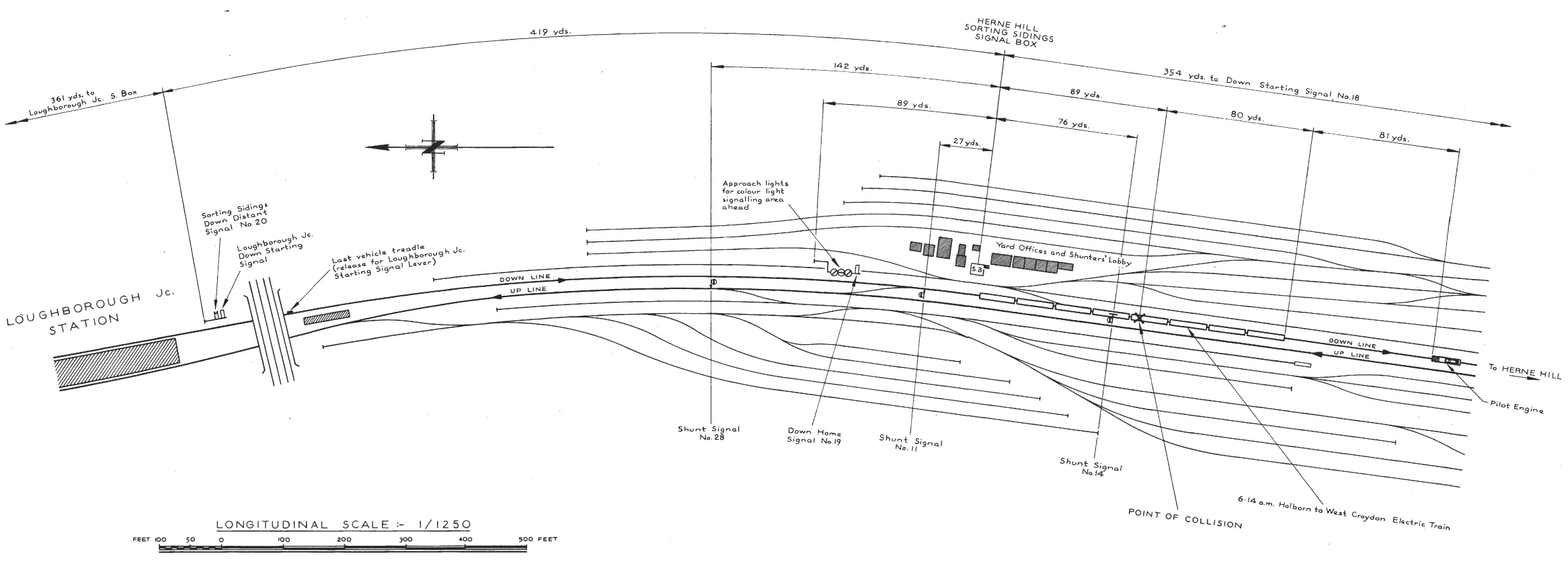 A map showing the layout of the former good sidings between Herne Hill and Loughborough Junction in South London.